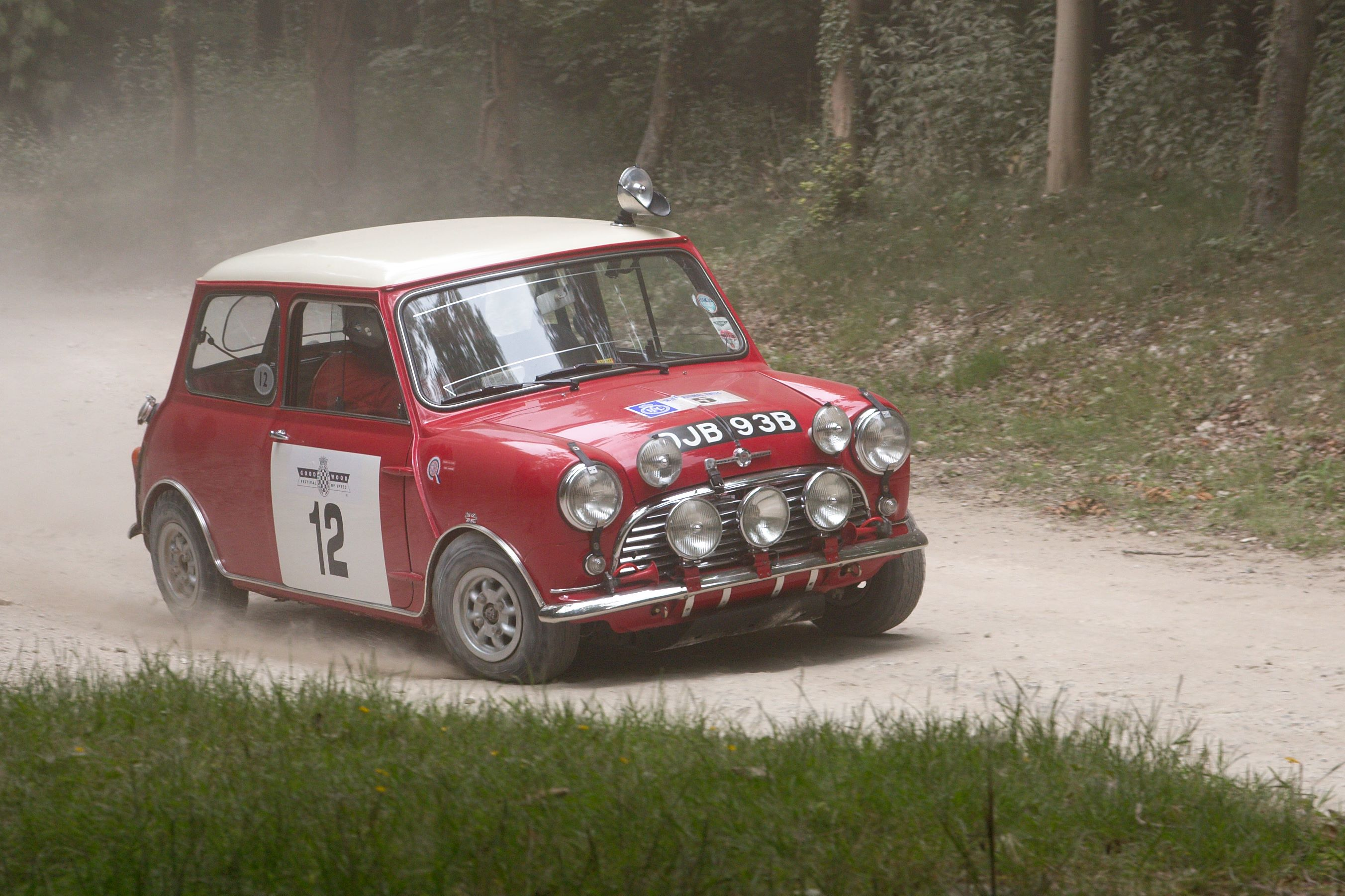 DJB 93B was the only mini to win the RAC rally (which it did in 1965). It won the Scottish Rally in 1966.